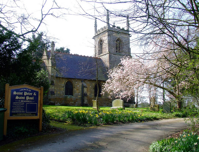 Healing, Lincolnshire Saint Peter and Saint Paul's Church Healing. is Late medieval on earlier foundations (Grade II Listed)